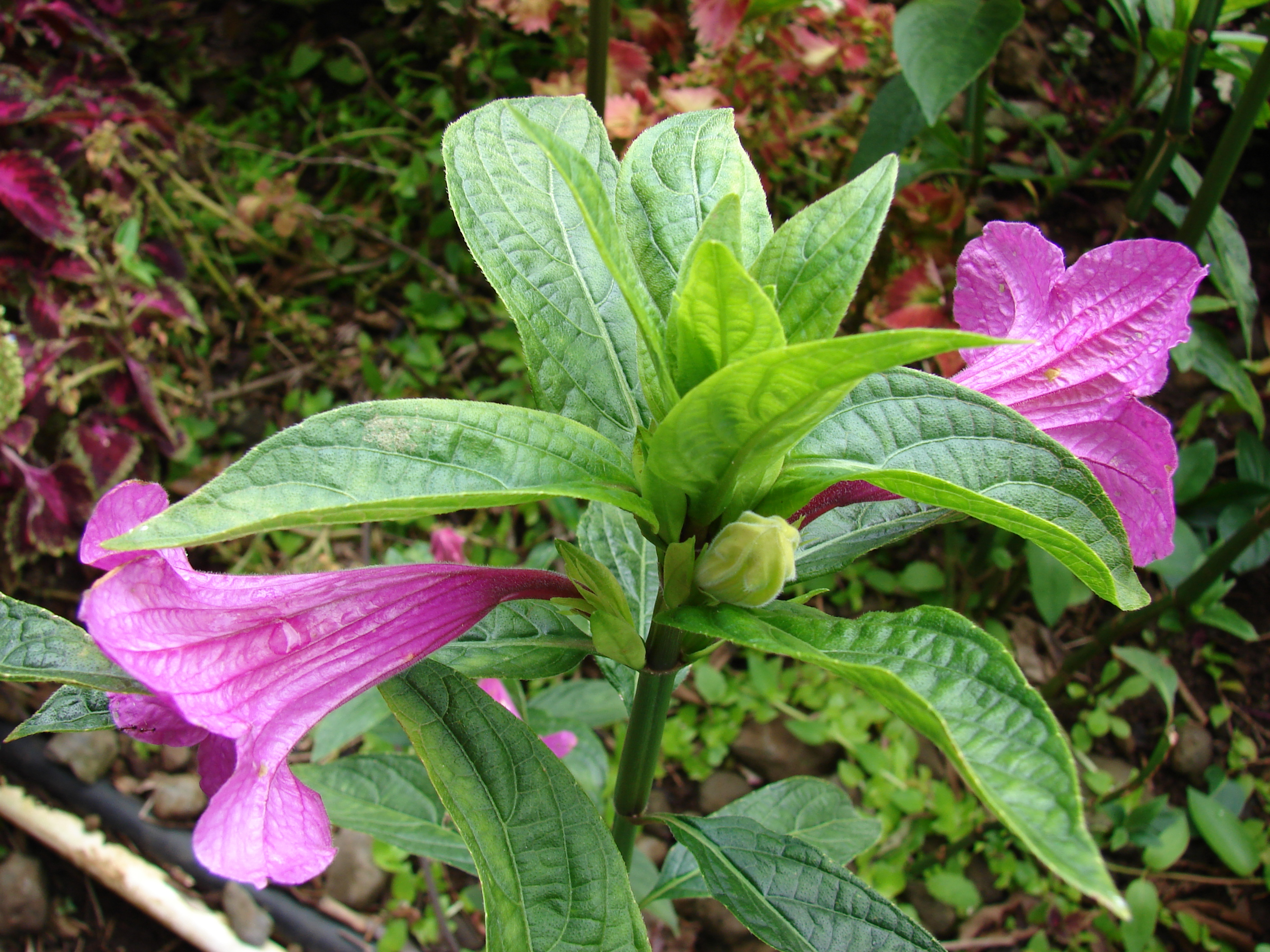 Ruellia macrantha (flowers and leaves). Location: Maui, Enchanting Gardens of Kula